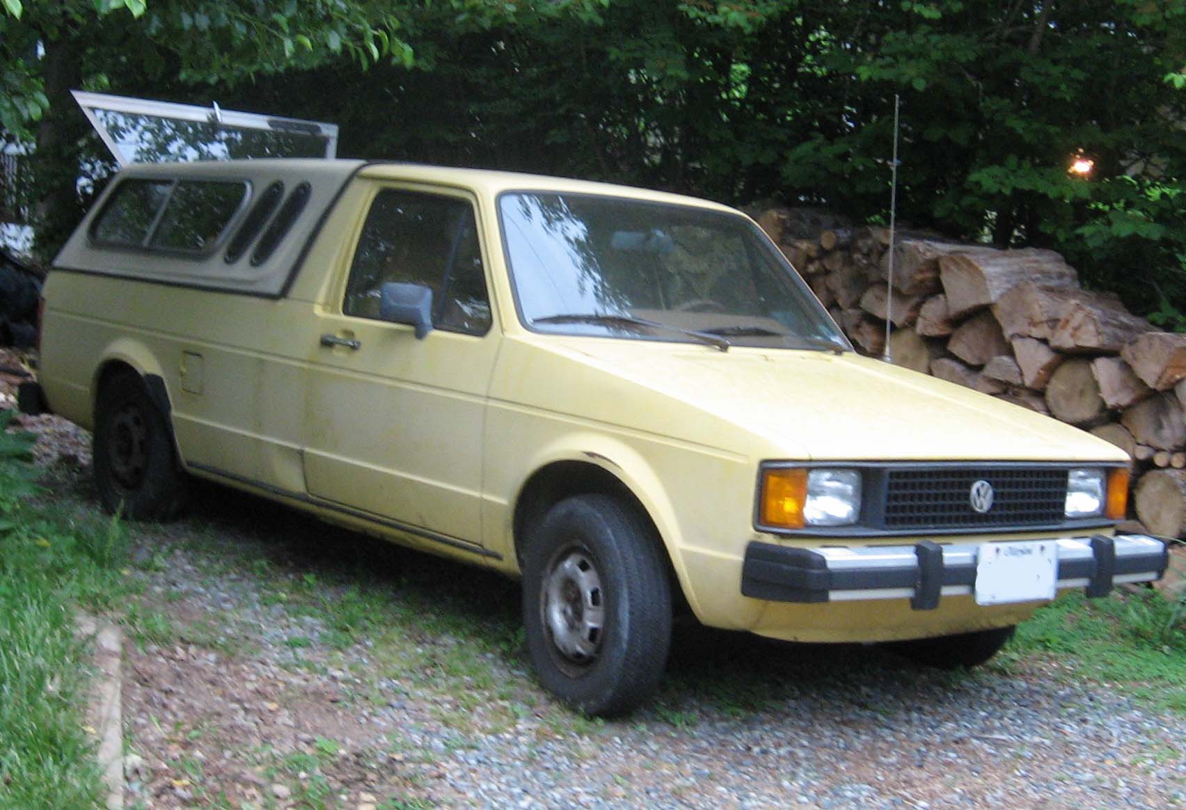 1981-1982 Volkswagen Pickup photographed in USA.